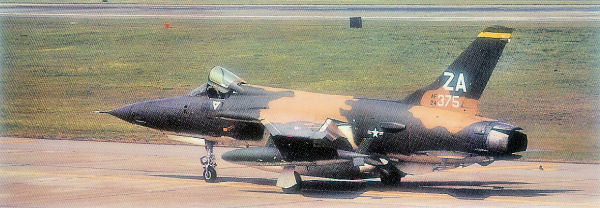 F-105D 2-4375 12th TFS/18th TFW 18 May 1971 Kadena AB, Okinawa.